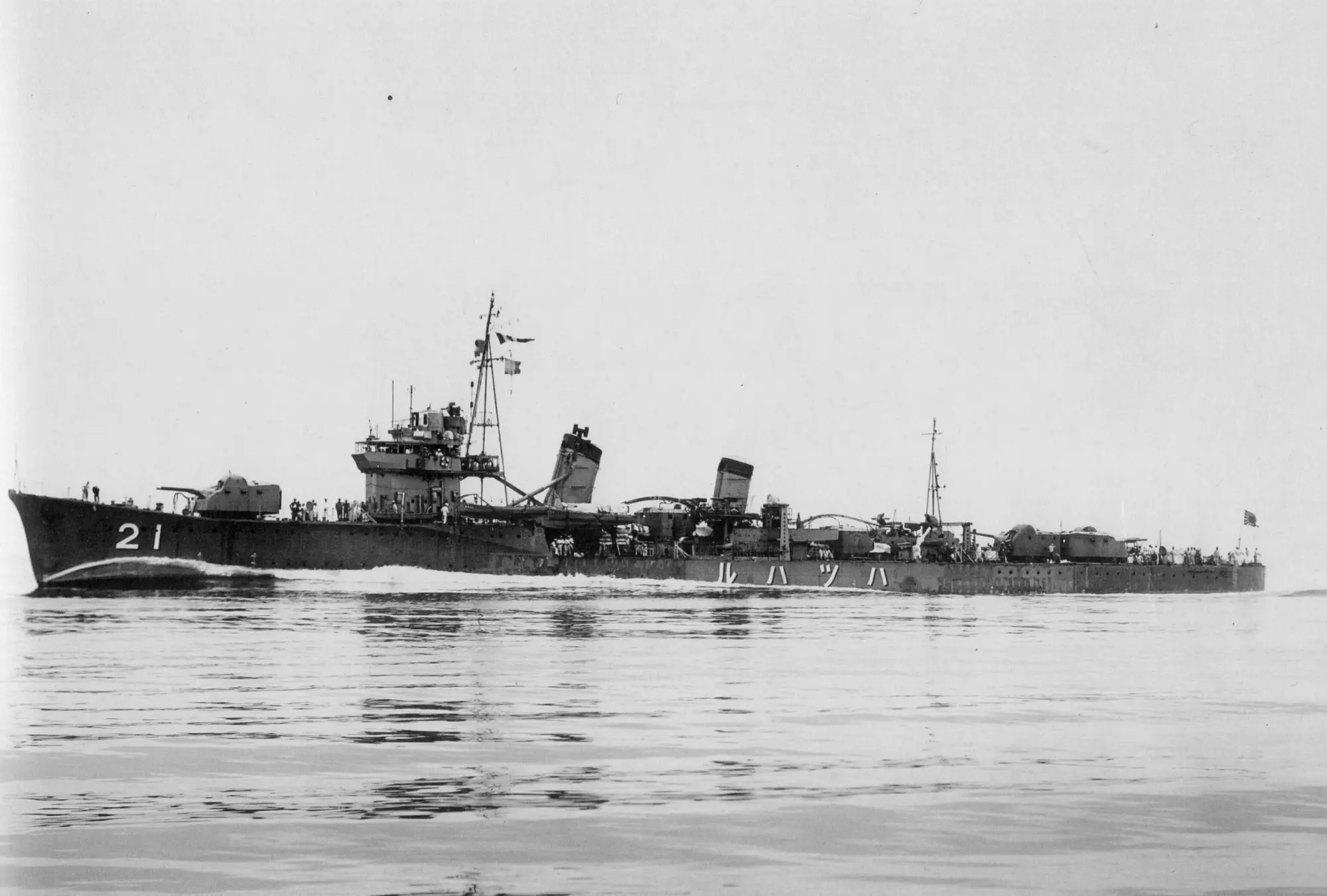 Imperial Japanese Navy destroyer Hatsuharu (Hatsuharu-class) on 1934, after modifications to improve stability.